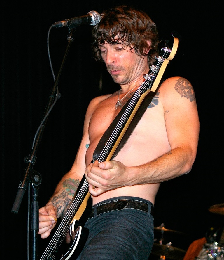 Todd Morse - (width Juliette and the Licks) Mannheim Capitol April 2007